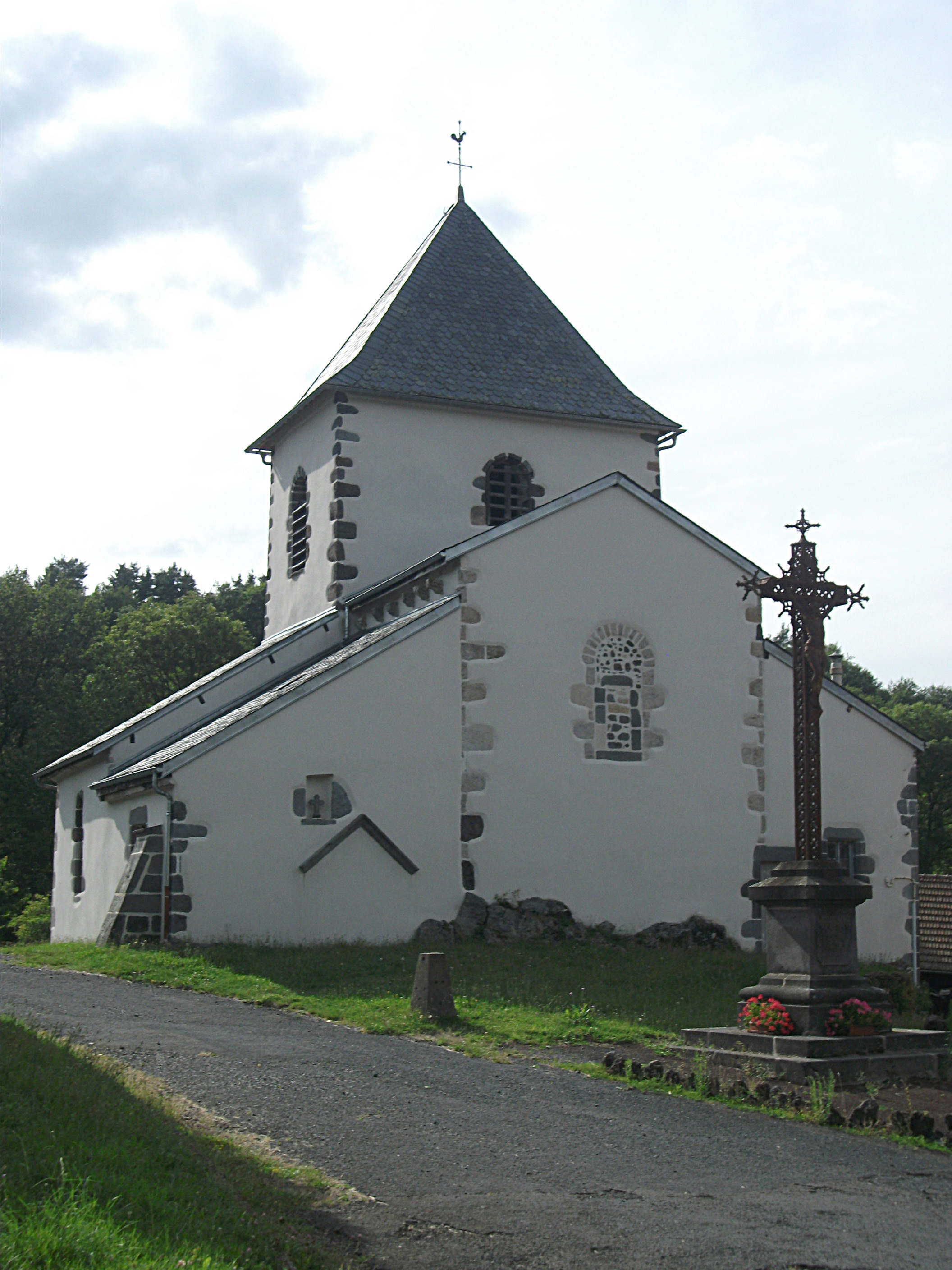 Church in Mazayes-Basses, Mazaye, Puy-de-Dôme, Auvergne-Rhône-Alpes, France. [16531]